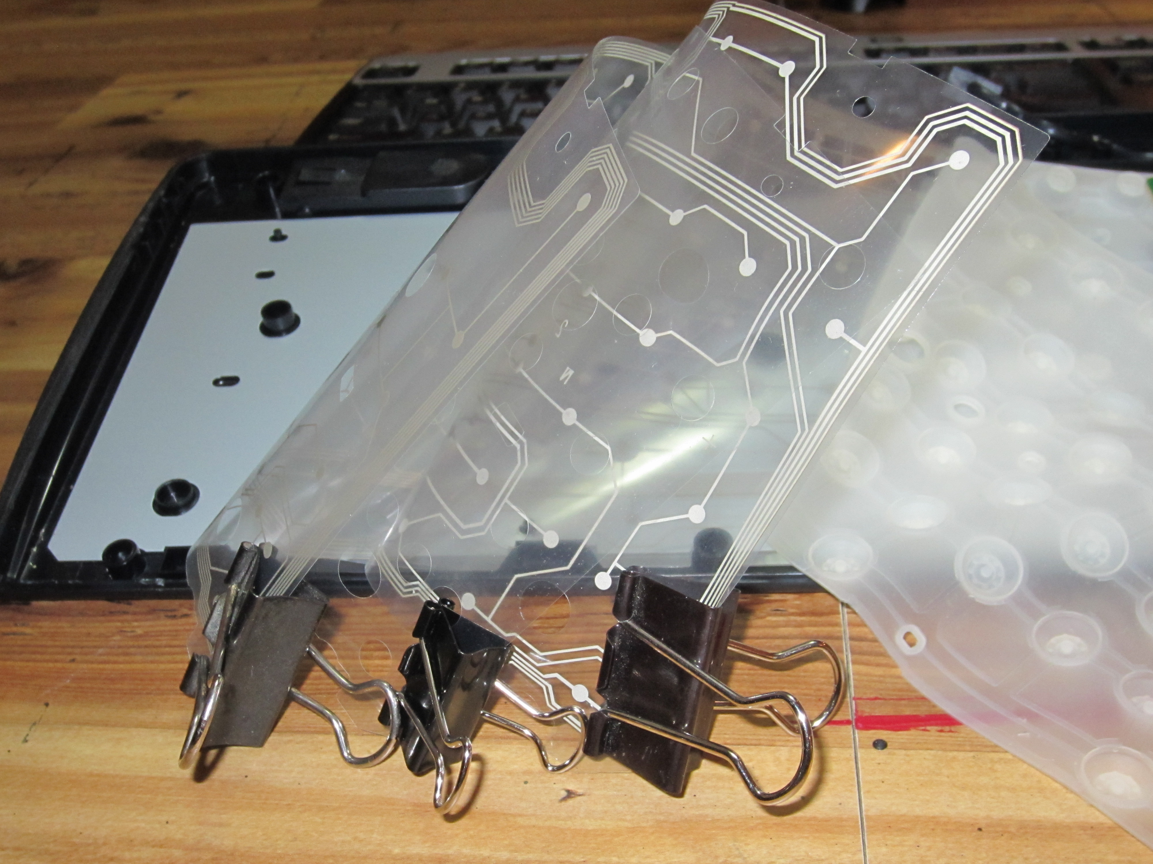 Internal layers of a computer keyboard; bottom contact layer, spacer layer with holes, top contact layer, then elastomer top layer to provide restoring force to keytops. Bottom of keyboard is steel pan to provide mechanical strength, weight, and some protection from electrostatic discharge.